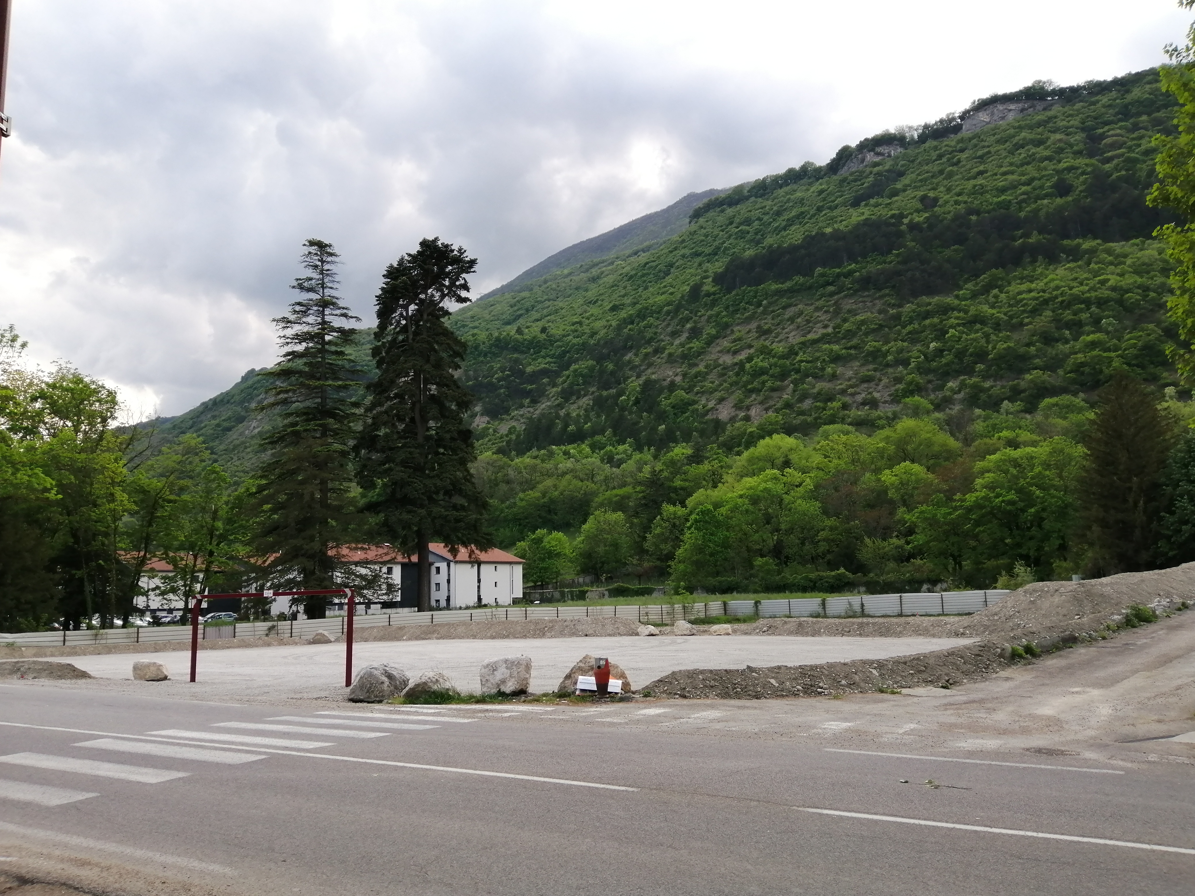 Field of Breuil, location of the site of the old Convent of Visitation Sainte-Marie (in Vif, France).